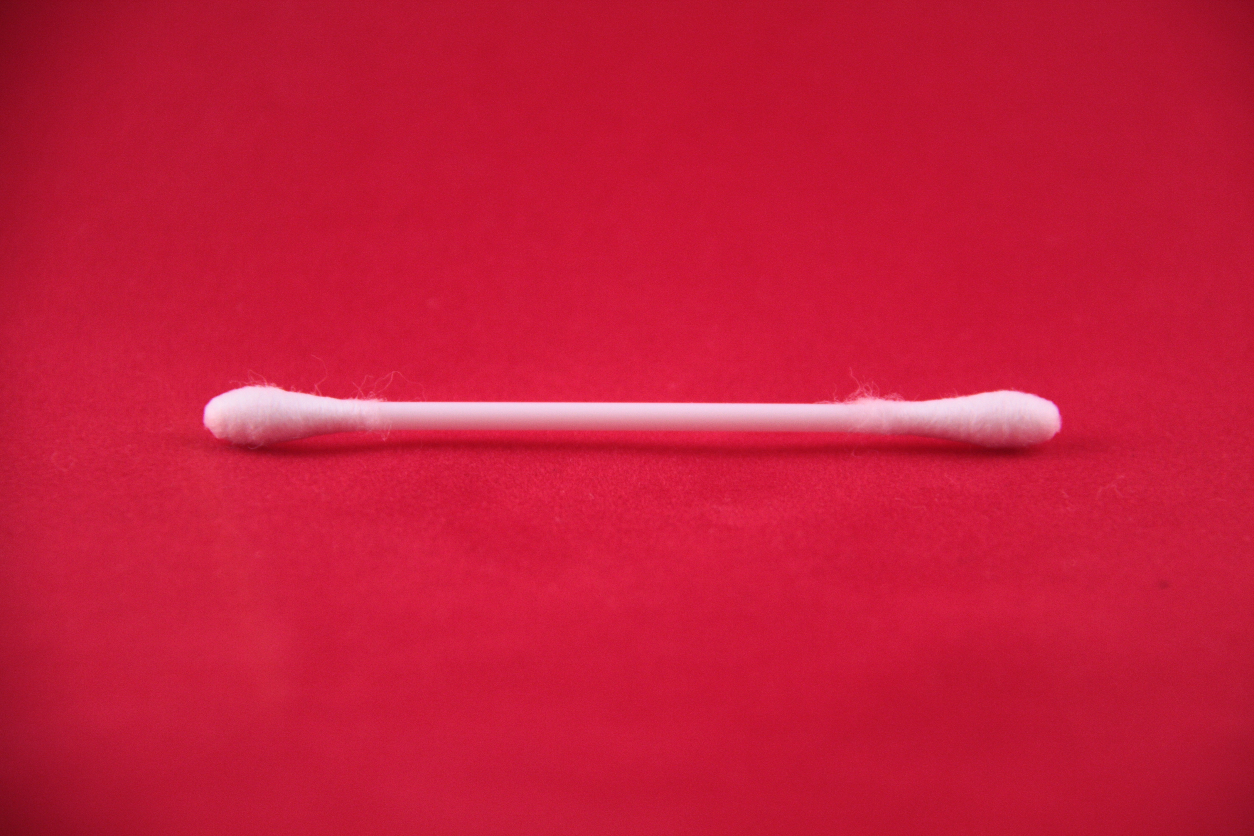 Cotton swab